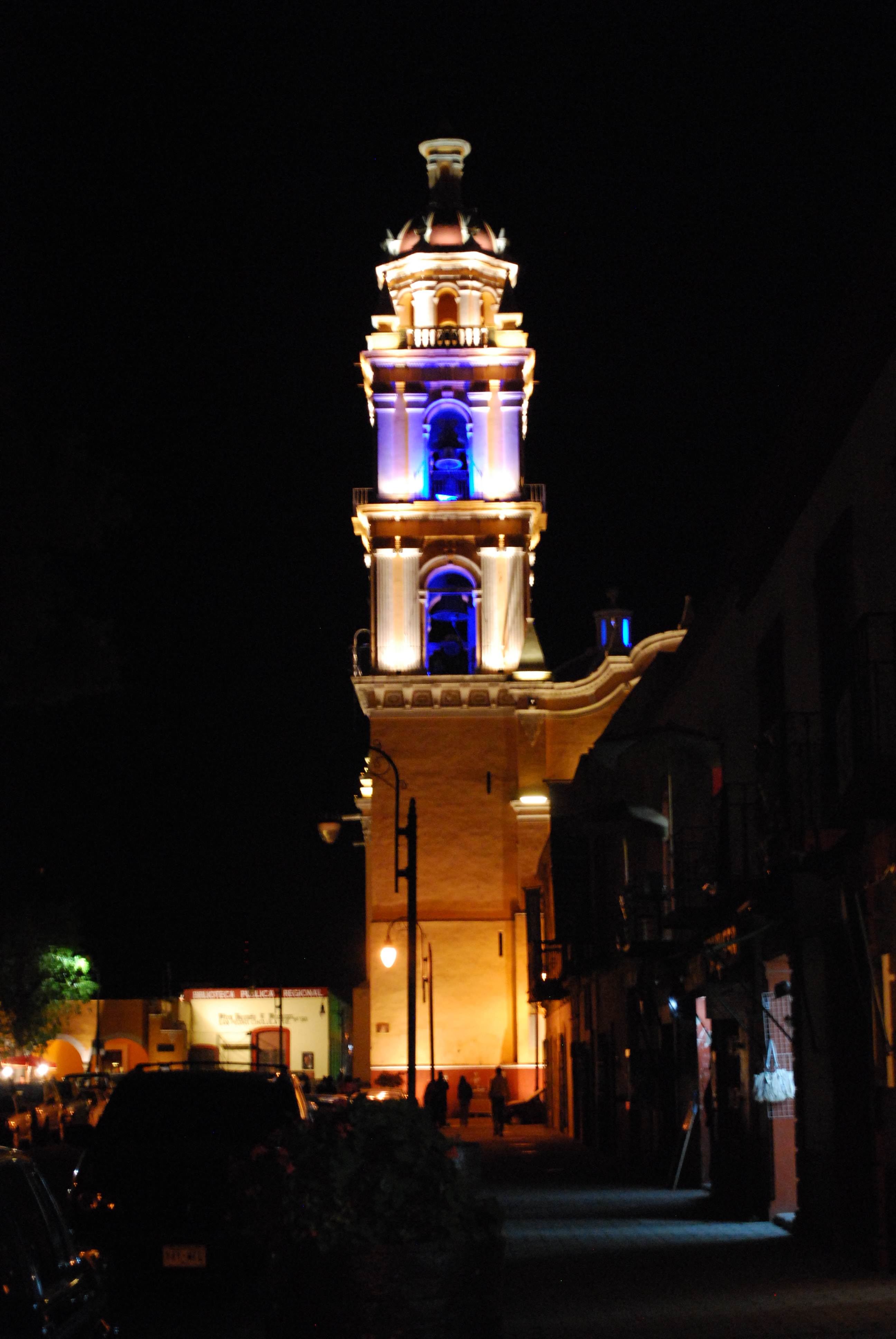 View of the parish of San Pedro at night in Cholula, Puebla, Mexico